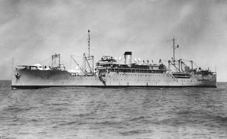 The U.S. Navy submarine tender USS Argonne (AS-10) at anchor, circa in the early 1930s, showing battle efficiency "E" on her stack. Note that she has an apparent rangefinder over the bridge even though she carries no armament.